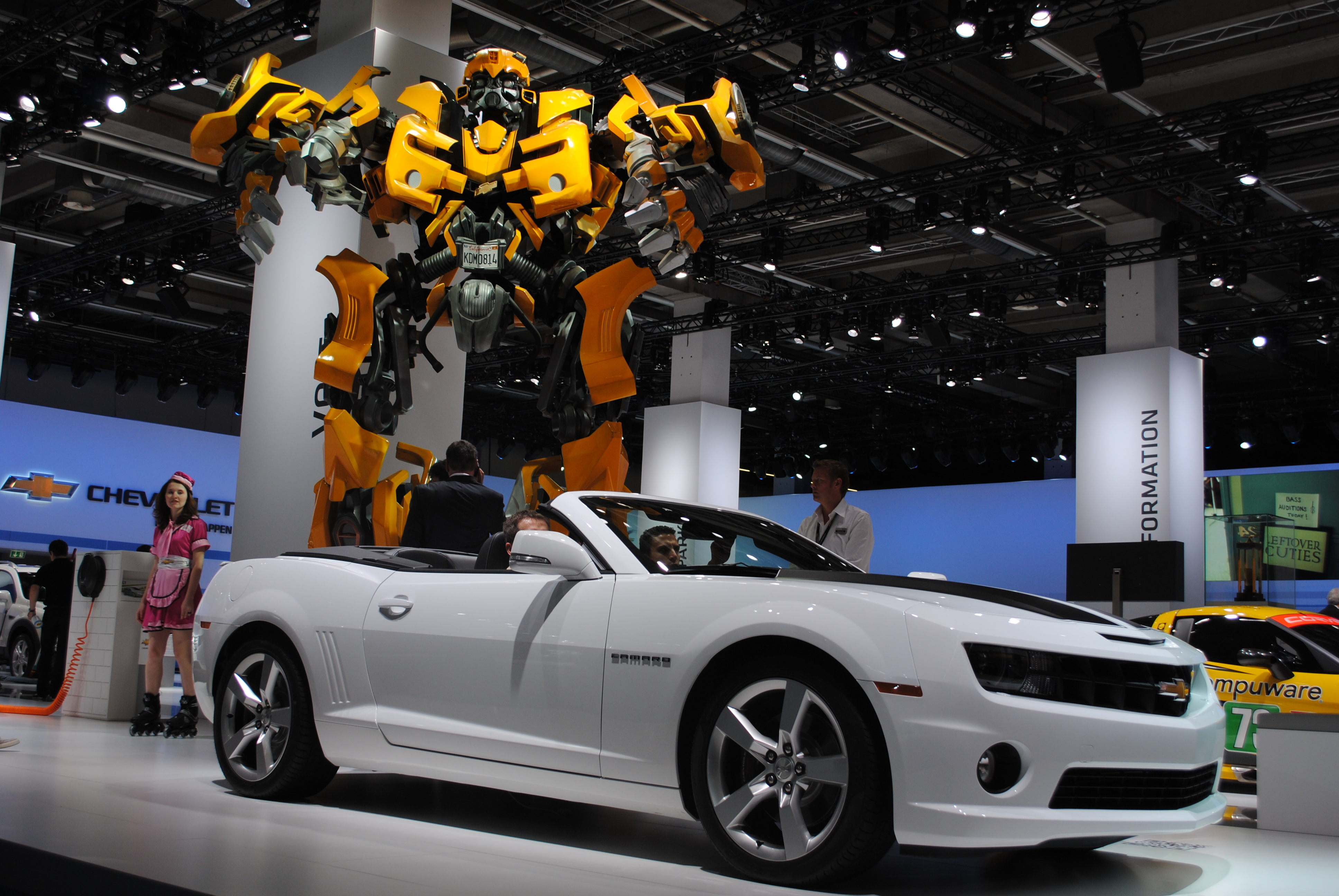 For more info and images, please check